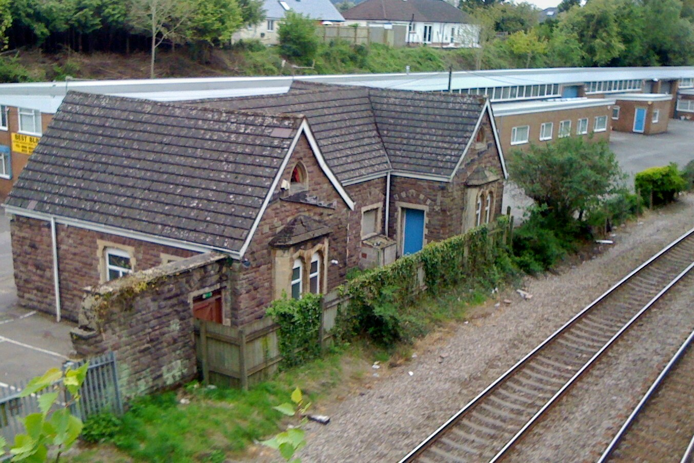 Caerleon railway station Pictures of Newport